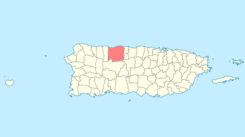 Municipal locator of Puerto Rico